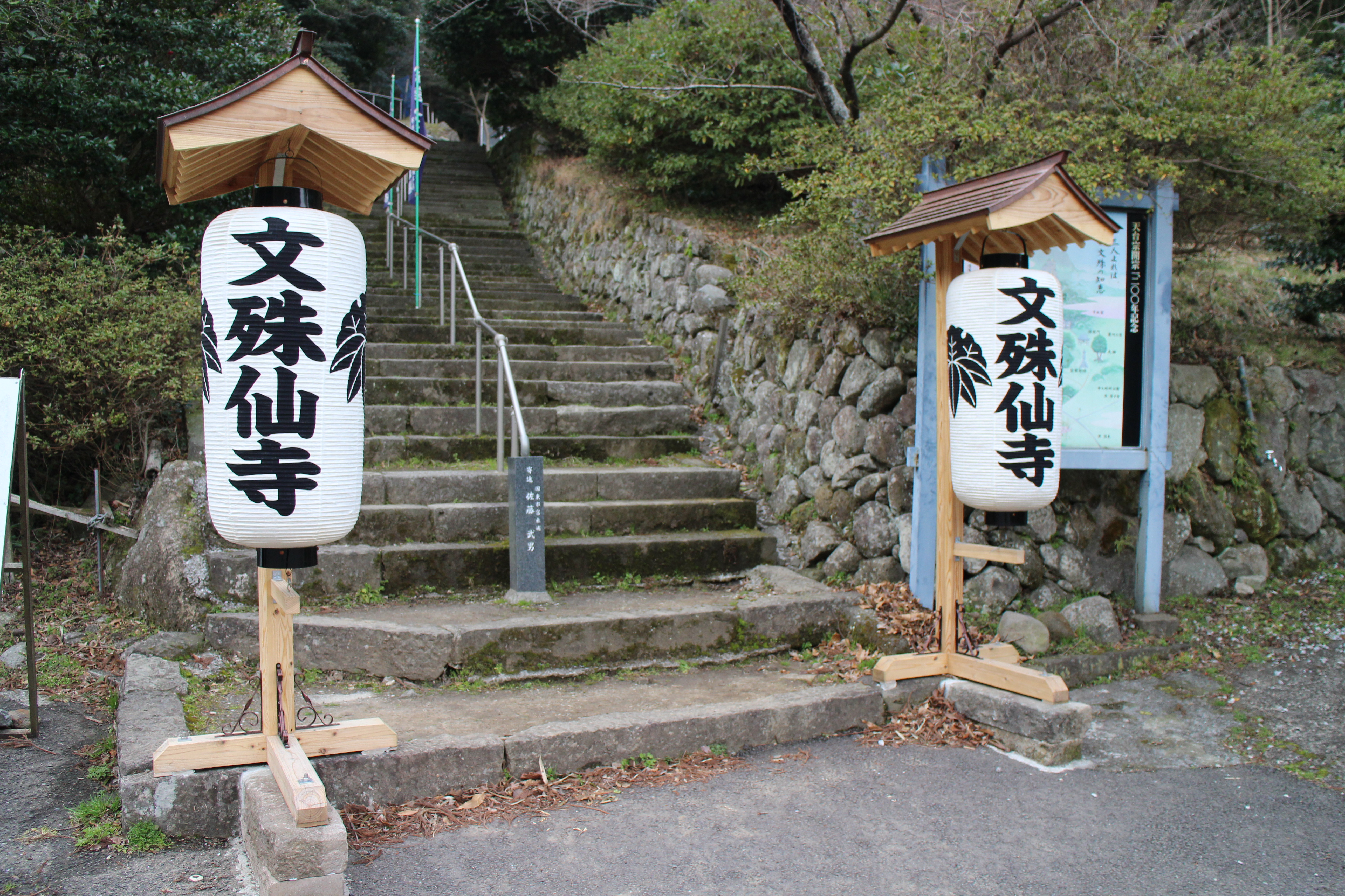 monjusenji-entrance